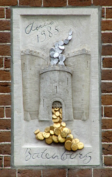 Gable stone depicting visual pun on 'Batenburg', Prinsengracht & Rozenstratt, Amsterdam